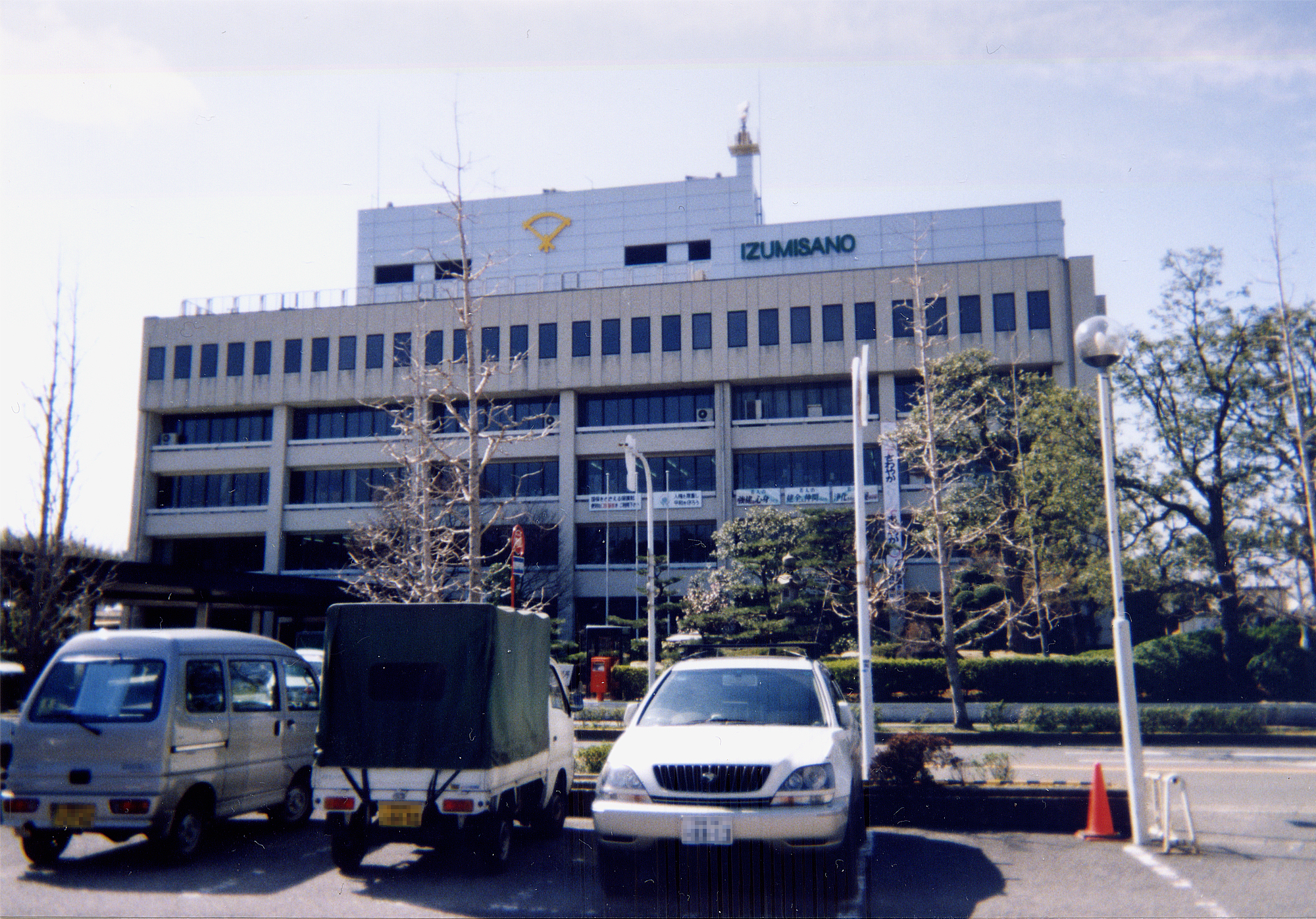 Izumisano, Osaka, city office